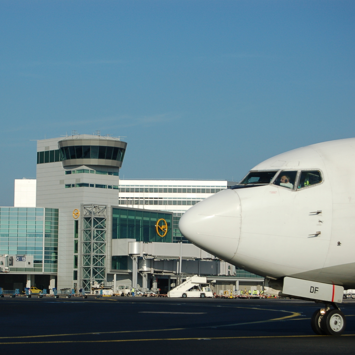 Apron Controller, Apron Control East, Frankfurt Airport